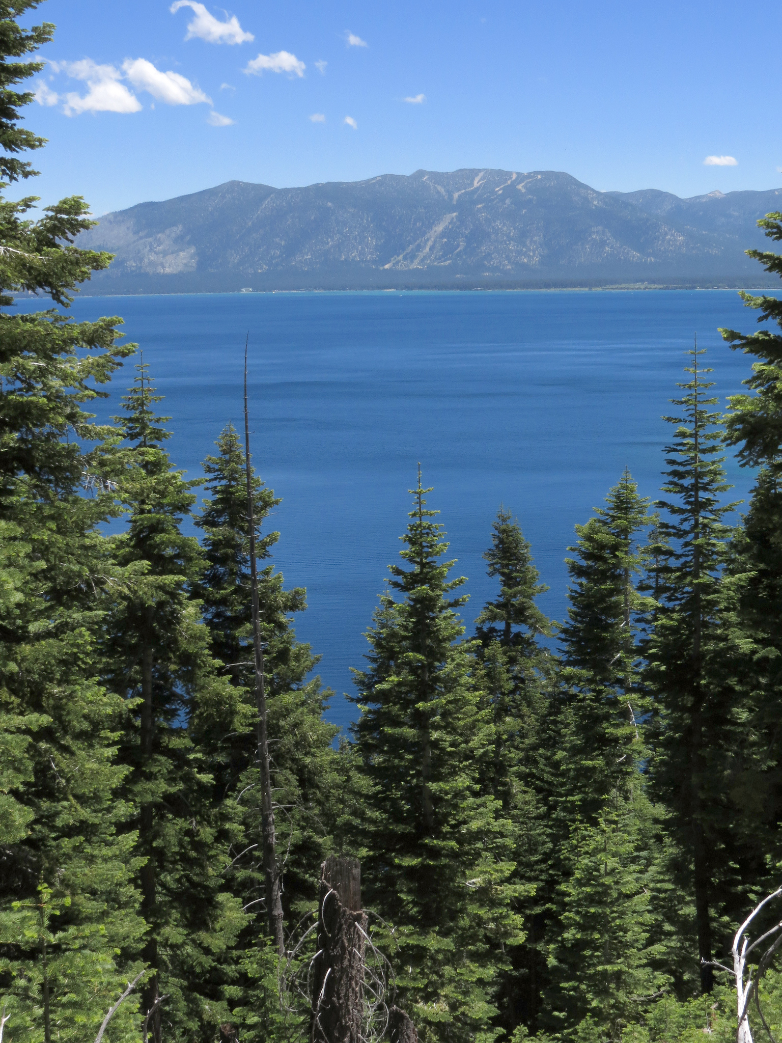 White Fir Abies concolor subsp. lowiana, Emerald Bay, Lake Tahoe, California, USA.